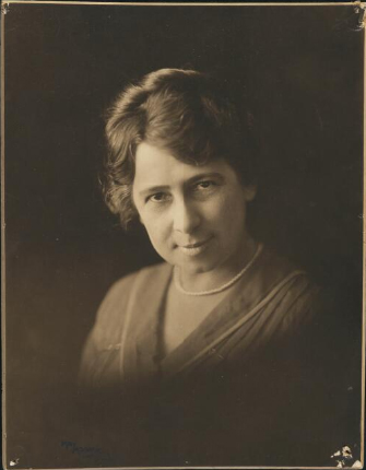 Portrait of Australian journalist Amy Eleanor Mack